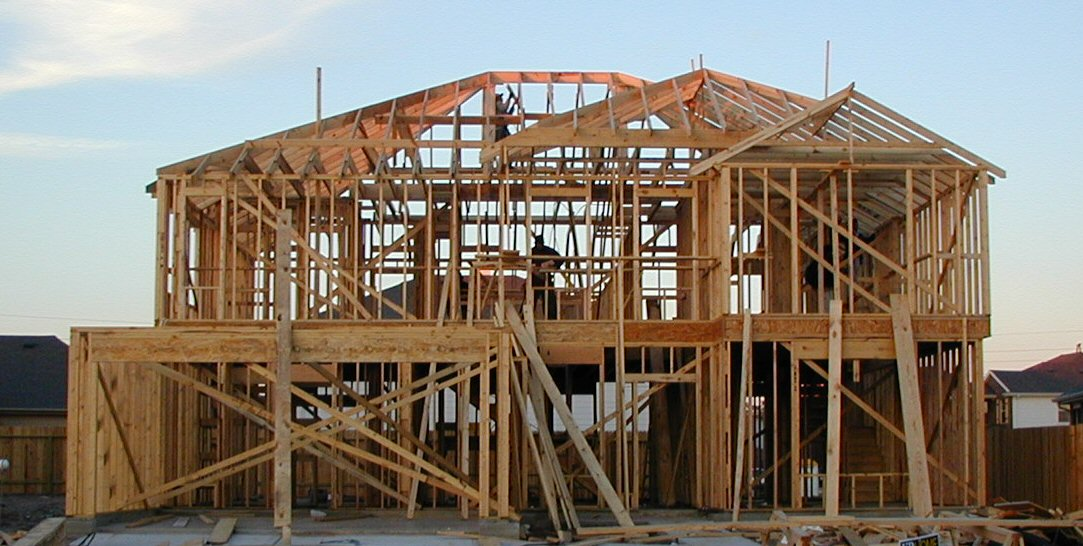 This is a picture I took myself. It is a house under construction in Katy, Texas.